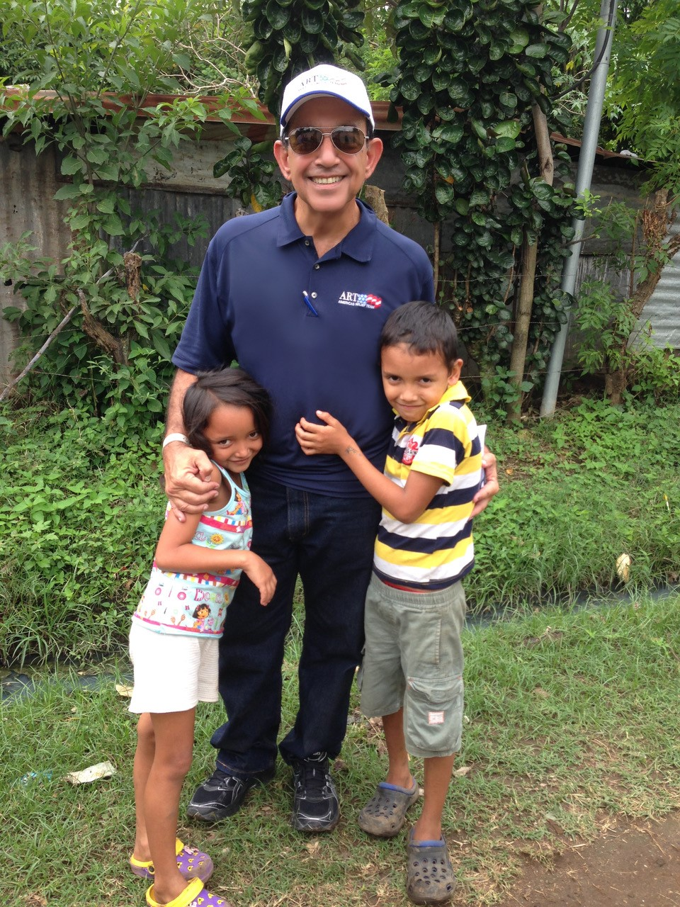 Teo Babun, CEO of America's Relief Team, a humanitarian aid nonprofit, with children receiving aid.